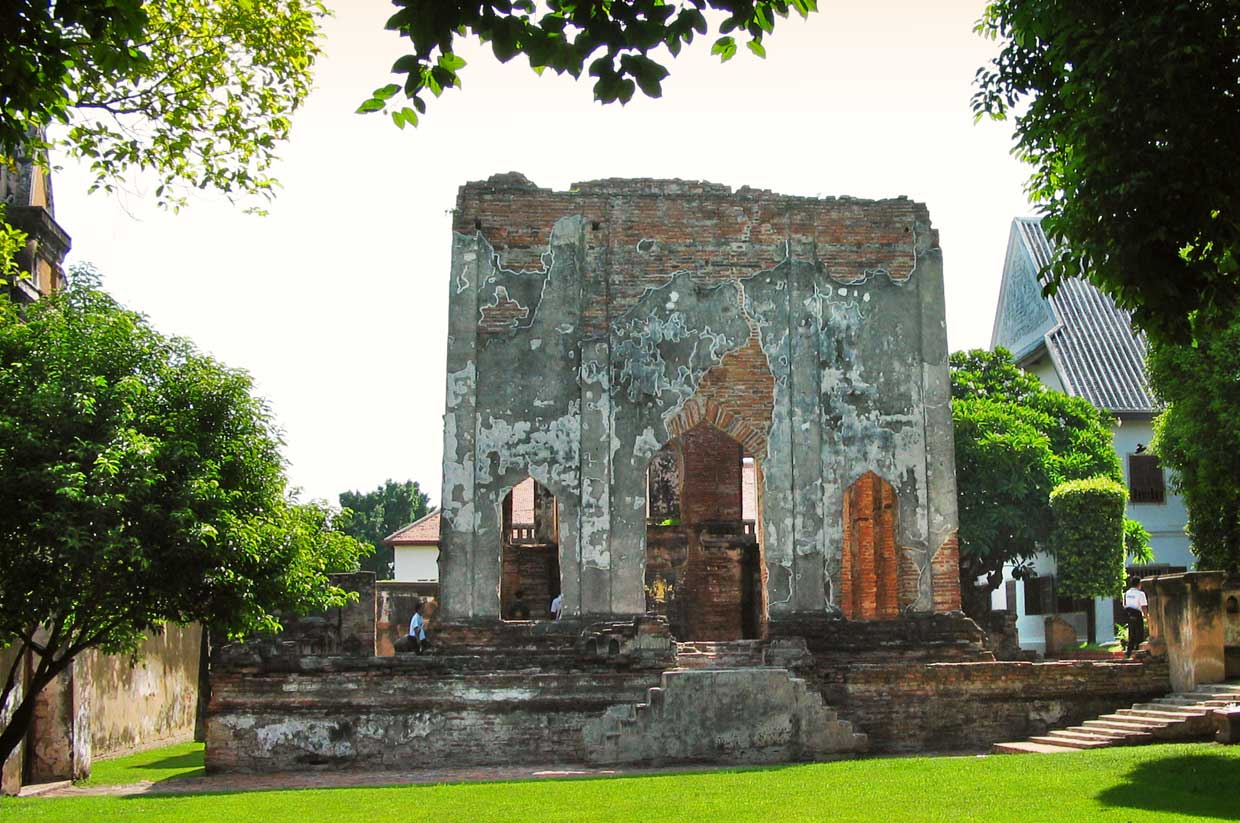 Phra Narai Ratcha Nivet, palace of King Narai, Lopburi, Thailand